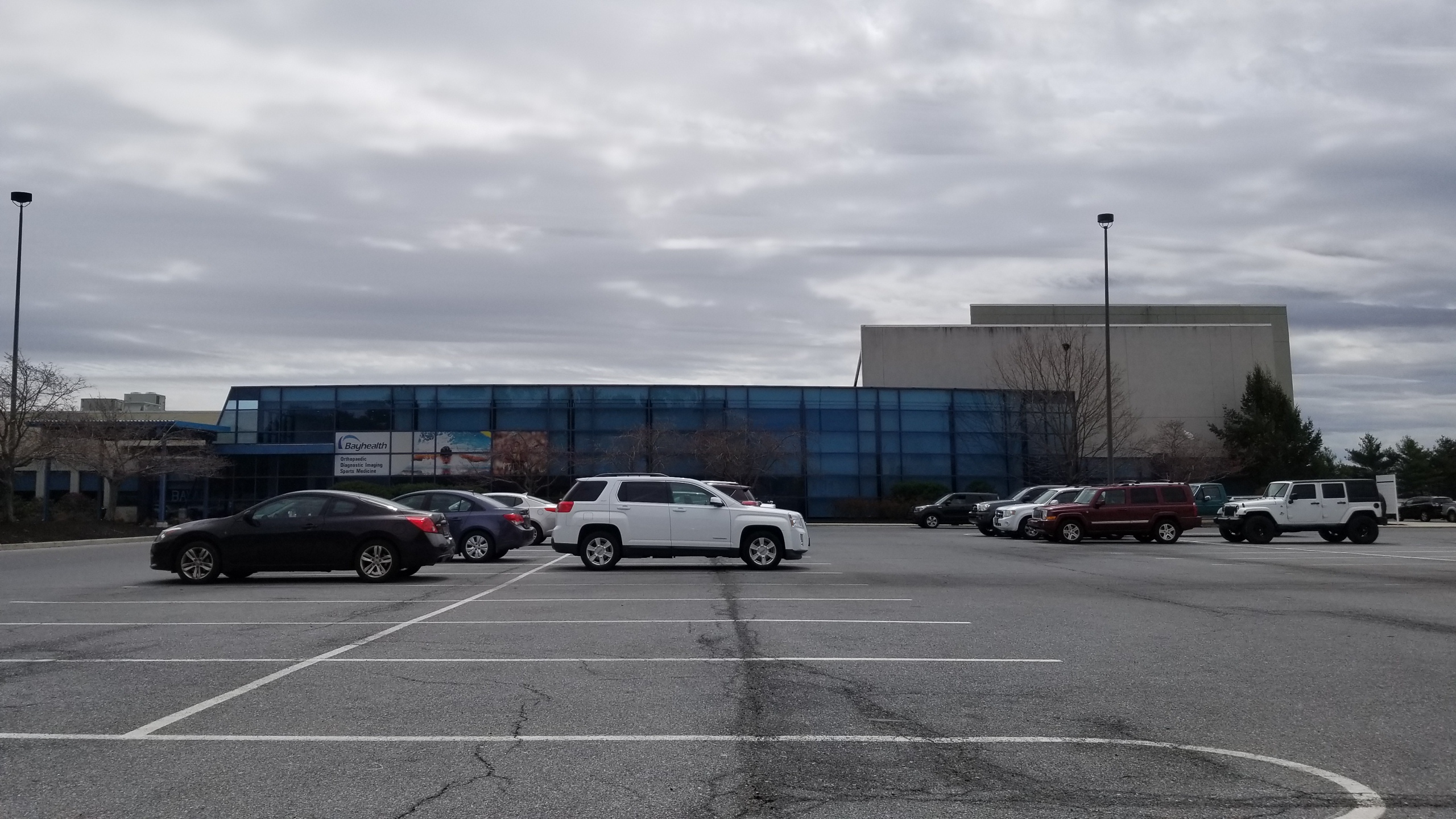 Blue Hen Mall, Dover, Delaware